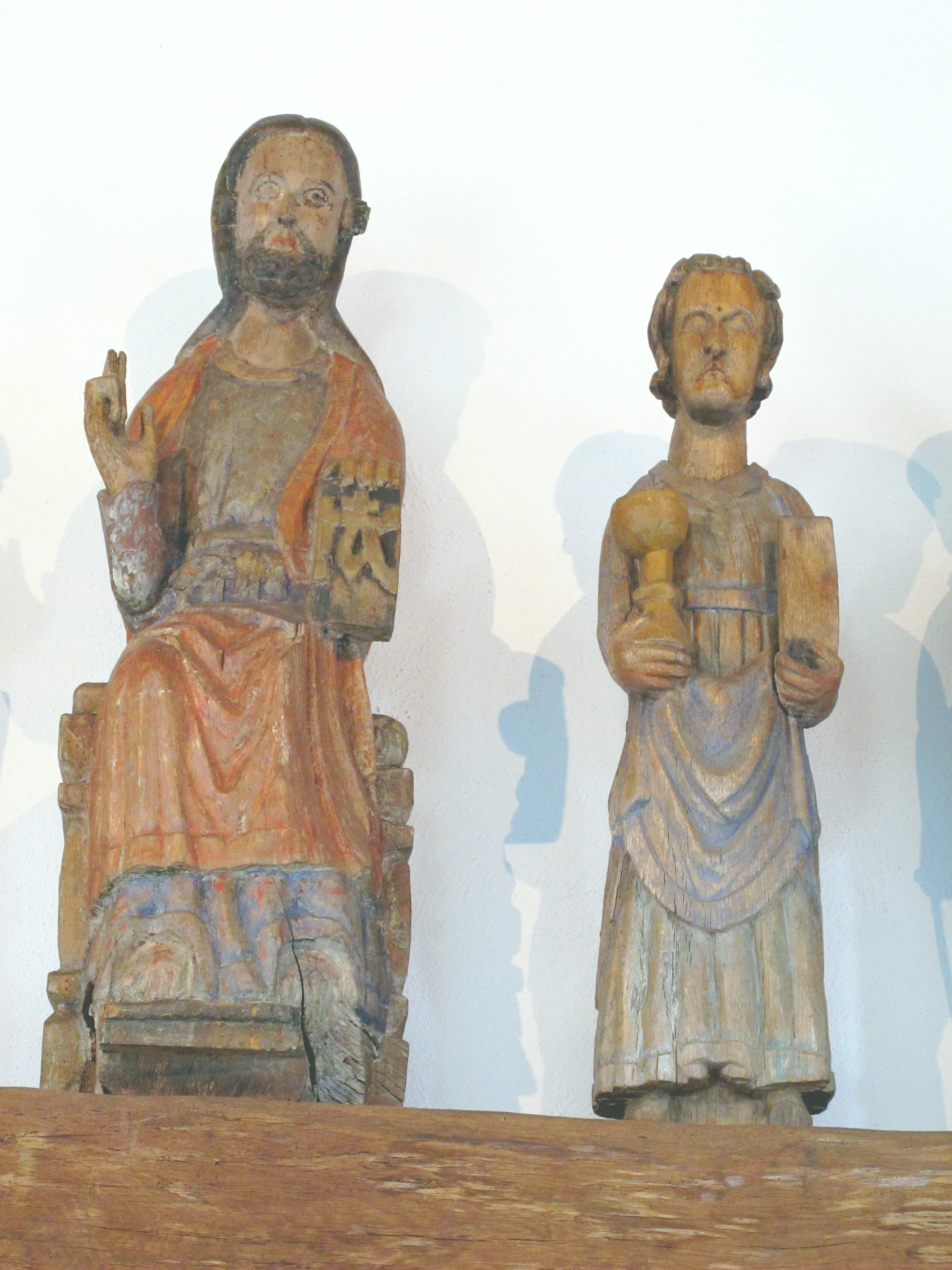 St. Clemens church Nebel, Amrum, Germany, Two disciples, wood carving, unknown artist